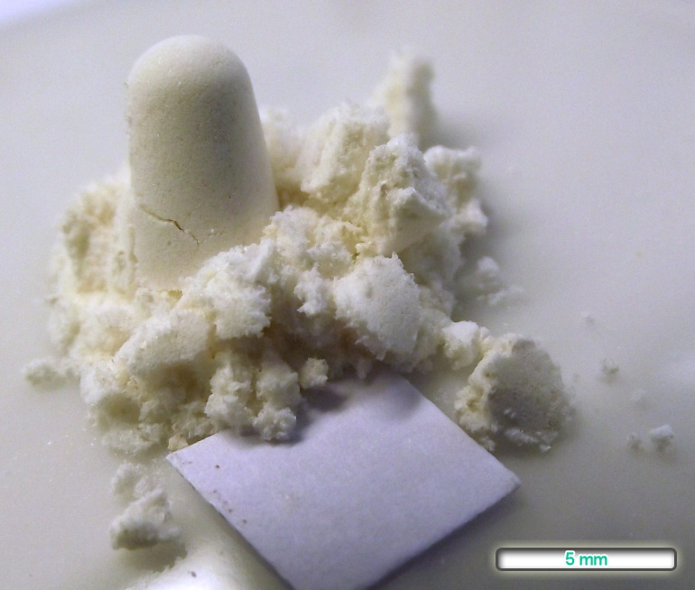 Photo of Sulfathiazole, pure